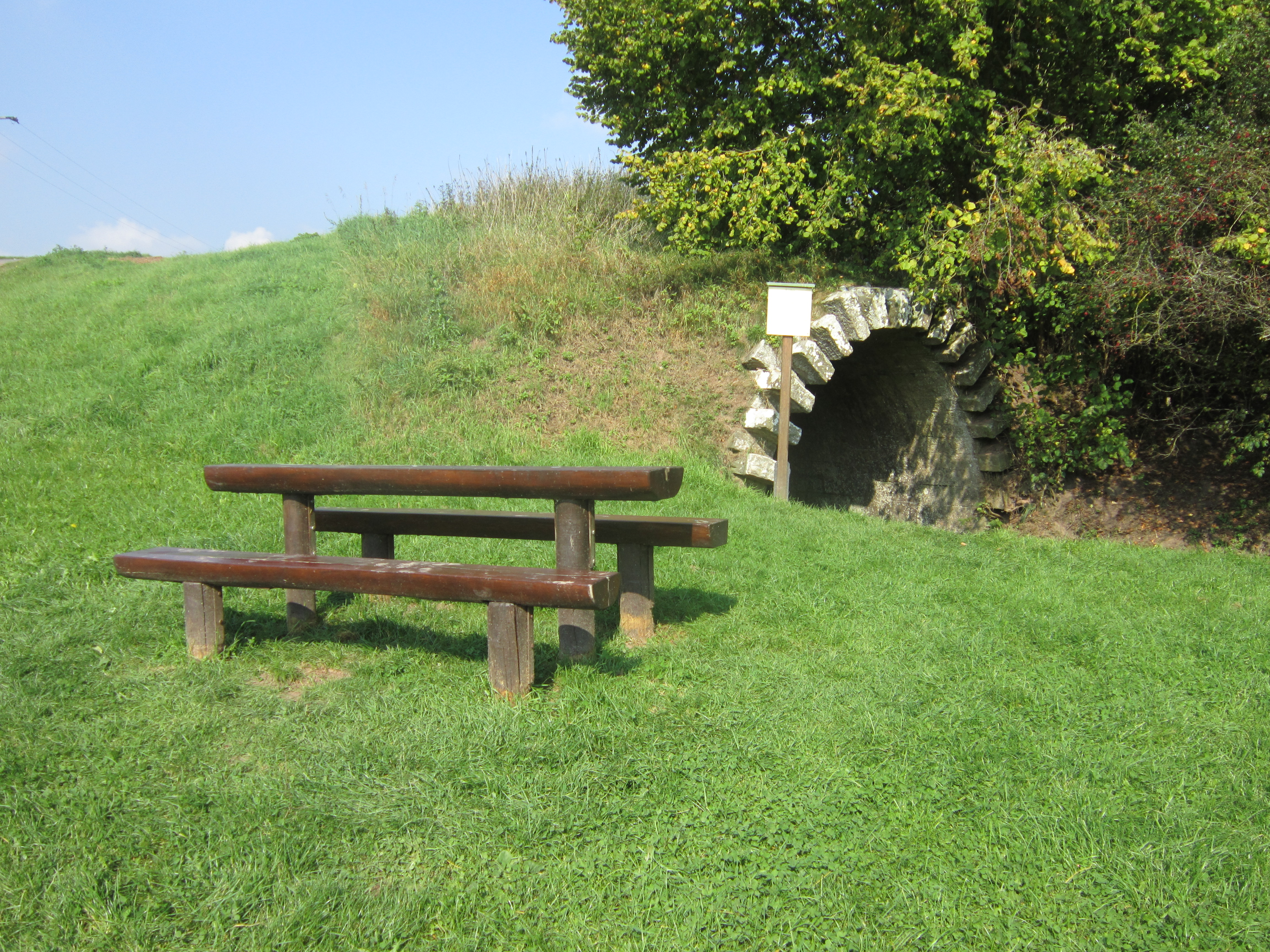 The "Echo", the beginning of a tunnel in Kleinbrach a quarter of the German spa town of Bad Kissingen in Lower Franconia (Bavaria).